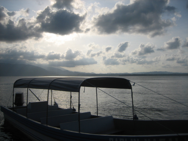 Tranquil waters of the Amatique Bay